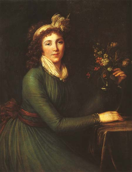 Countess Anna Sergeevna Stroganov née Princess Trubetskaya (1765-1824)